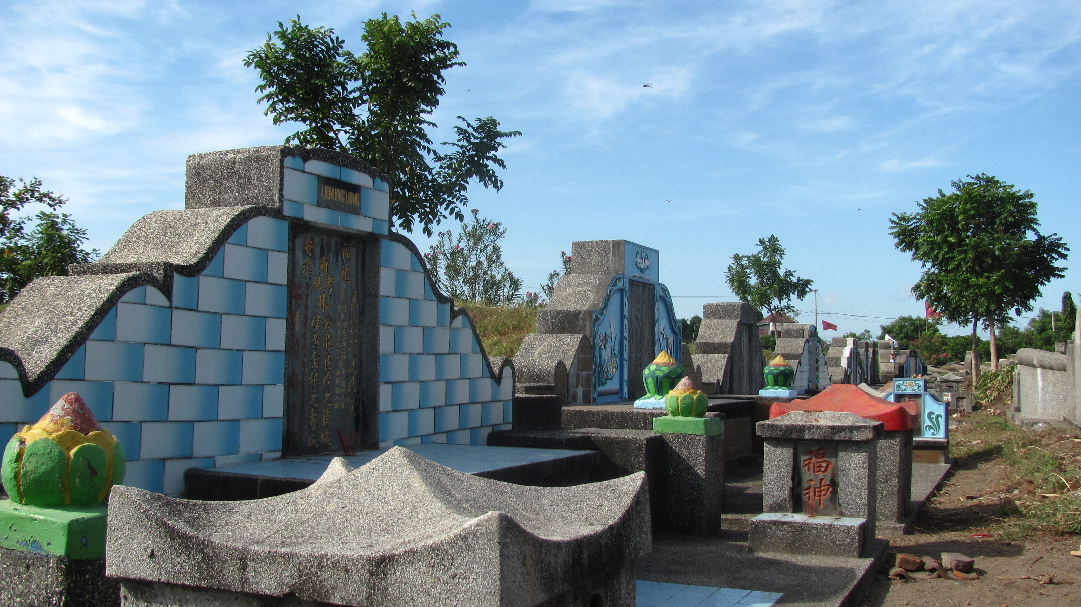 Chinese cemetery, Ampenan, Lombok, Indonesia